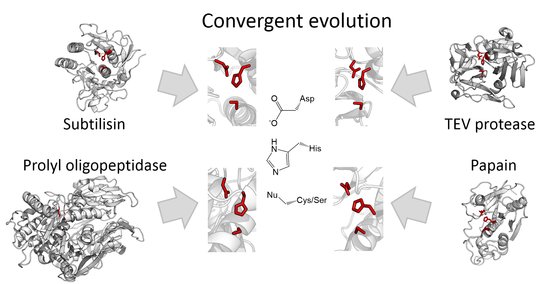 Evolutionary convergence of the catalytic triads towards the same organisation of acid-base-nucleophile. Shown are the triads of subtilisin (clan SB, family S8), TEV protease (clan PA, family C3), prolyl oligopeptidase (clan SC, family S9) and papain (clan CA, family C1).